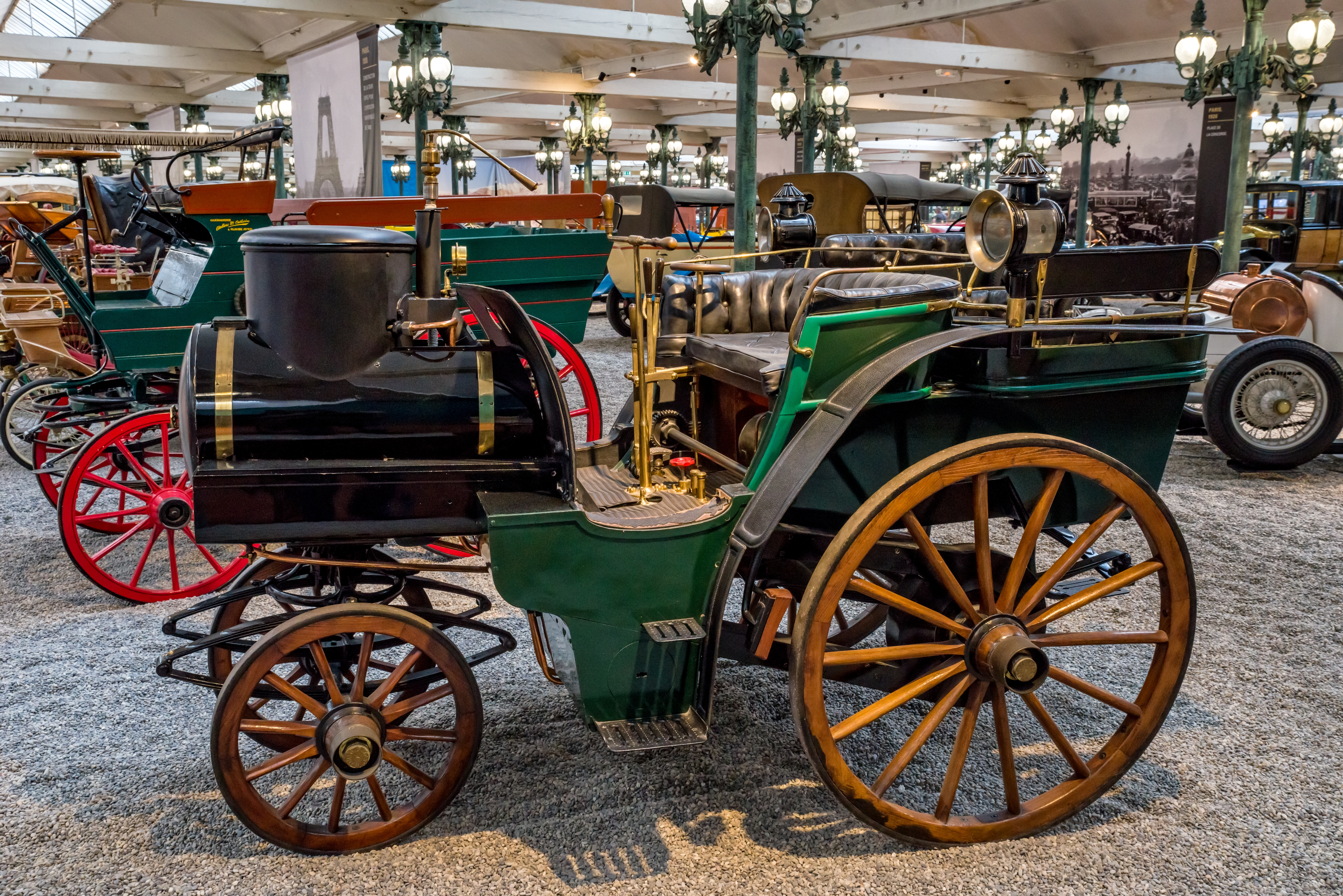 pictures from the Cité de l’Automobile – Musée National – Collection Schlump in Mulhouse, France ptictures from the 10. may 2018